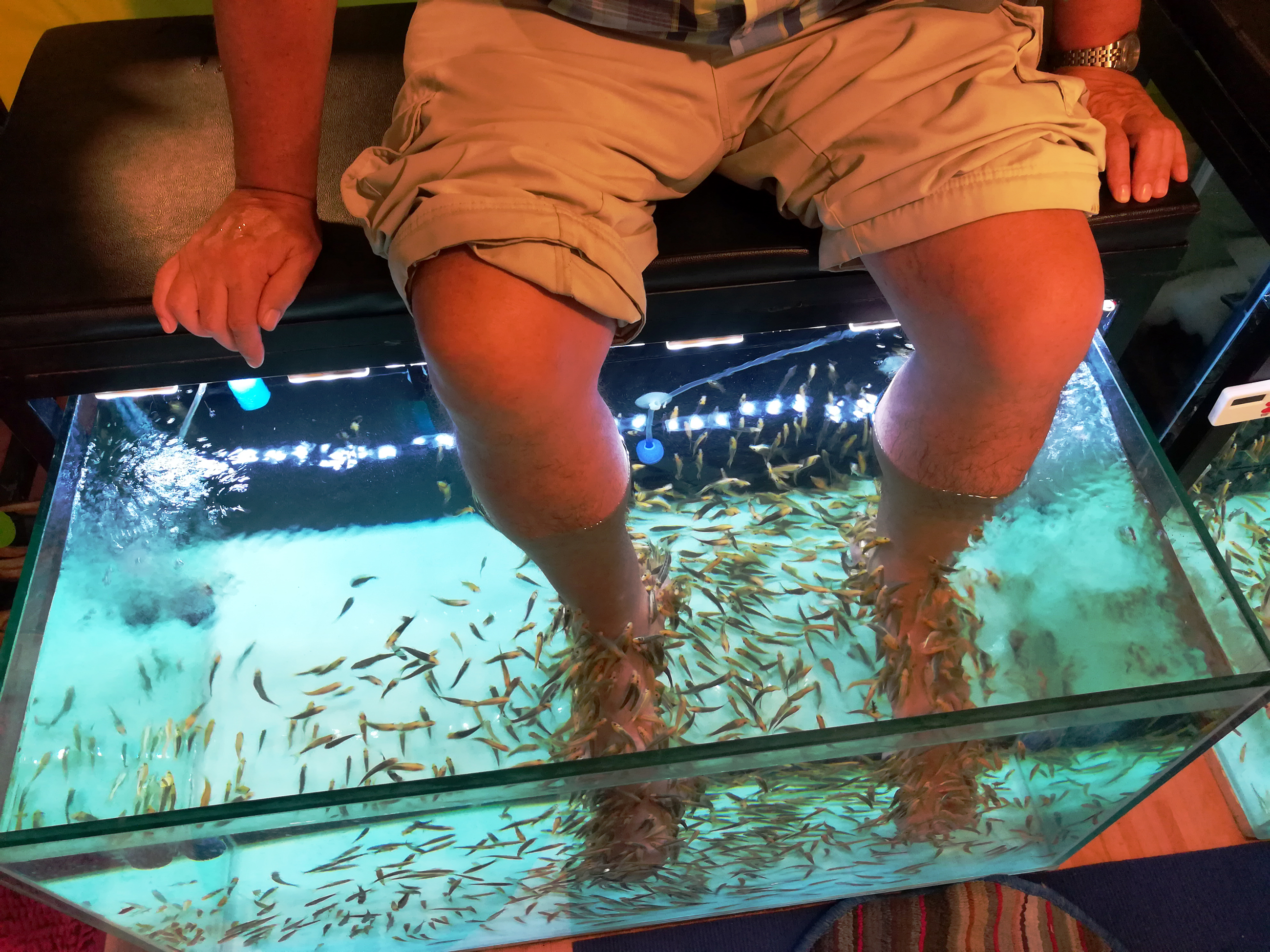 The fish Garra rufa pedicure in town Patong in Phuket Province, Thailand, March 2018